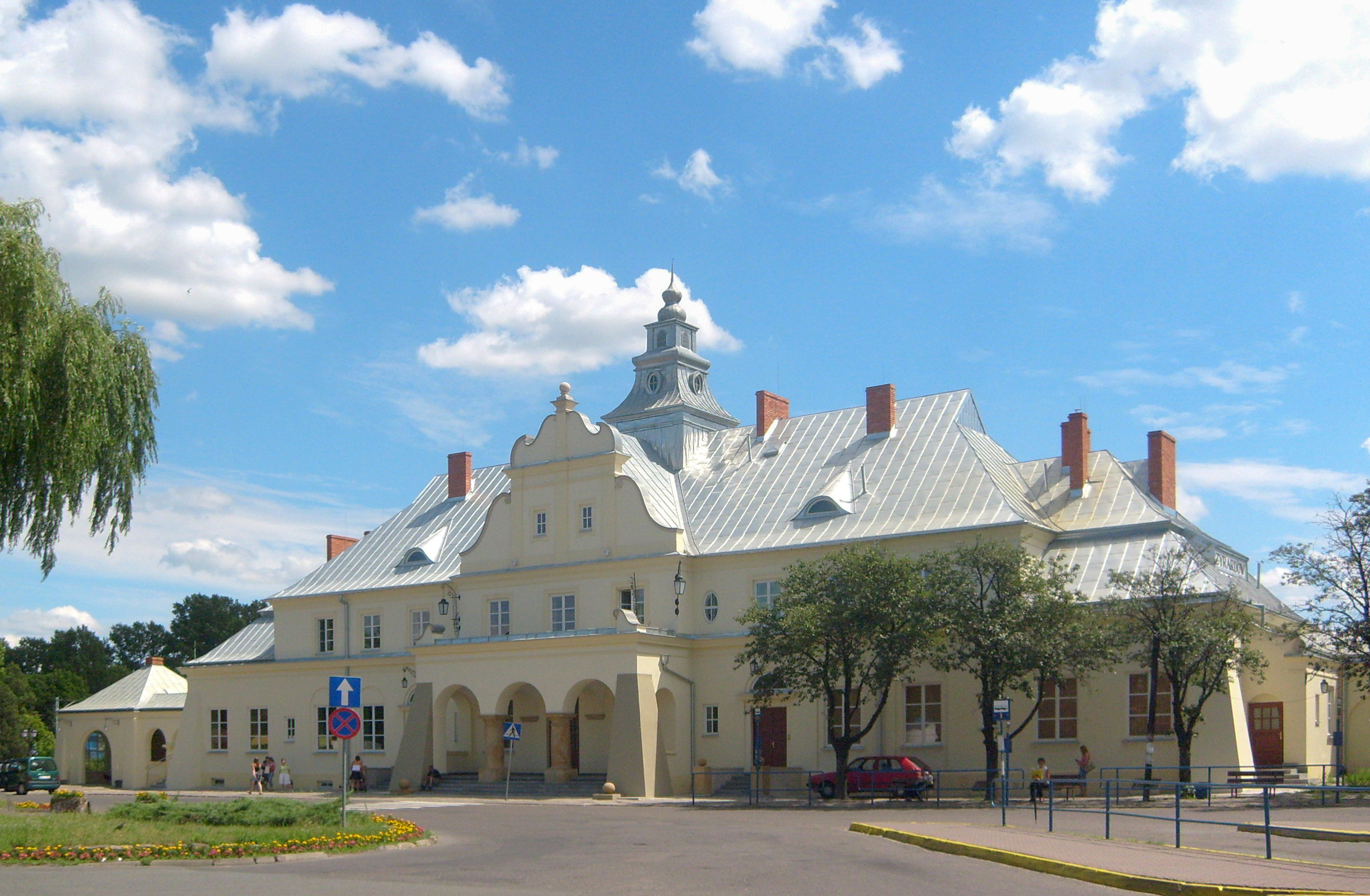 Railway Station in Żyrardów, Poland.